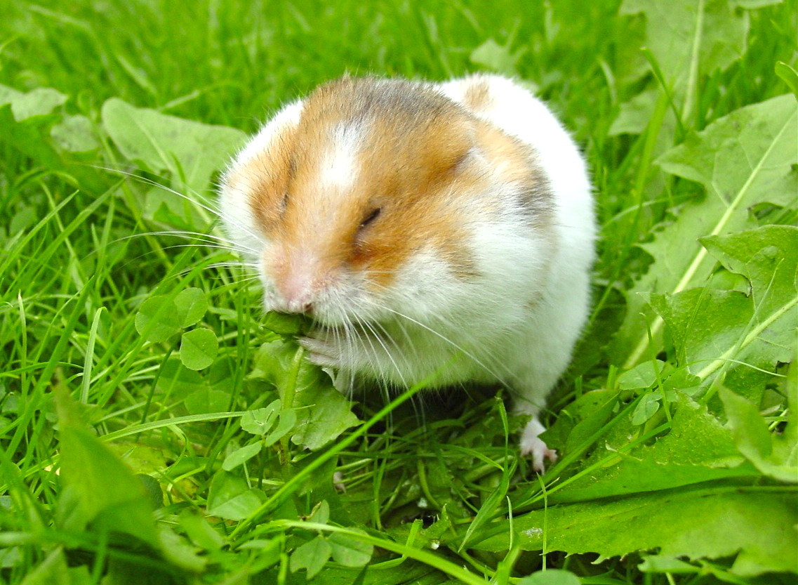 A Syrian hamster filling his cheek pouches with Dandelion leaves.